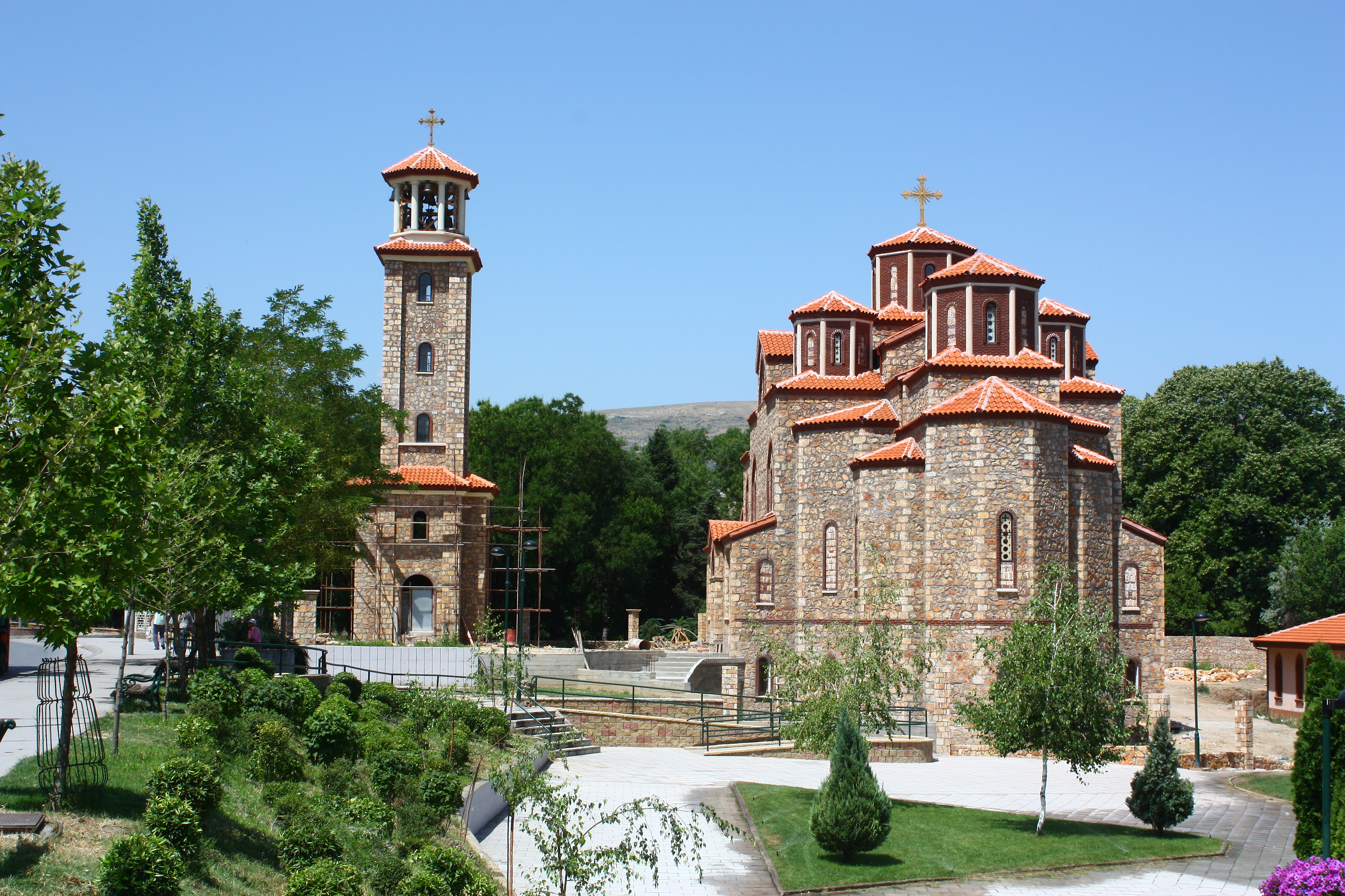 The church of Ss. Cyrill and Methodius in Veles, Macedonia